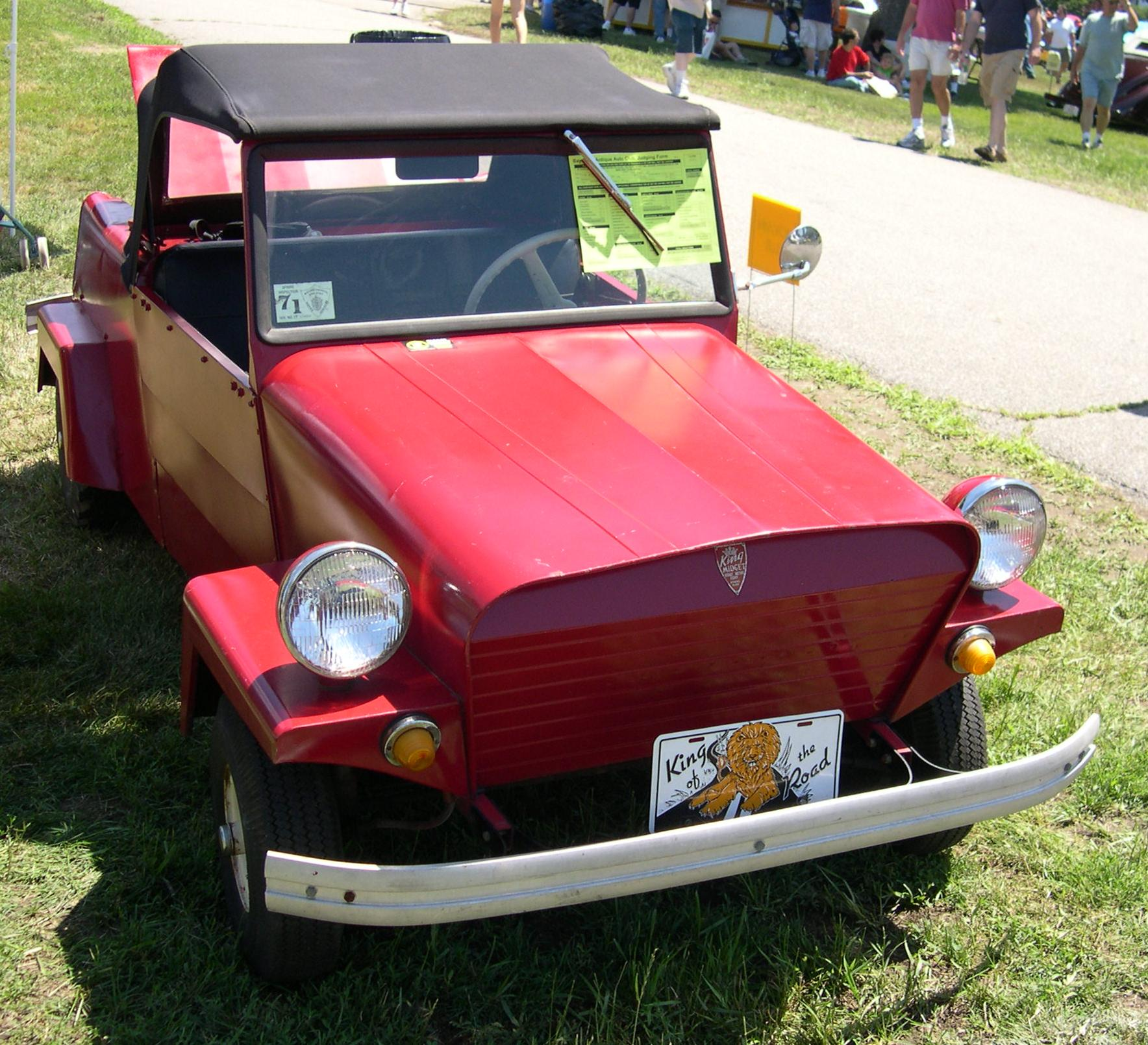 King Midget Model III Source: Photographed at the Bay State Antique Automobile Club's July 10, 2005 show at the Endicott Estate in Dedham, MA by User:Sfoskett